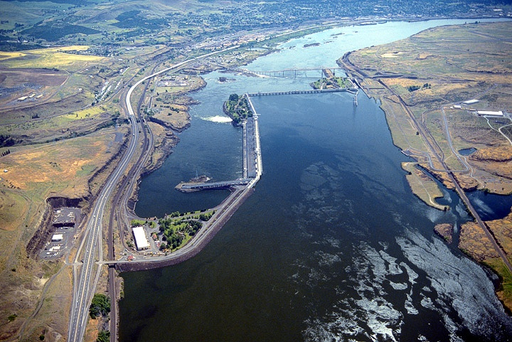 The Dalles Dam on the Columbia River between Washington (right) and Oregon (left). The city of The Dalles is in the far background on the Oregon side of the river.